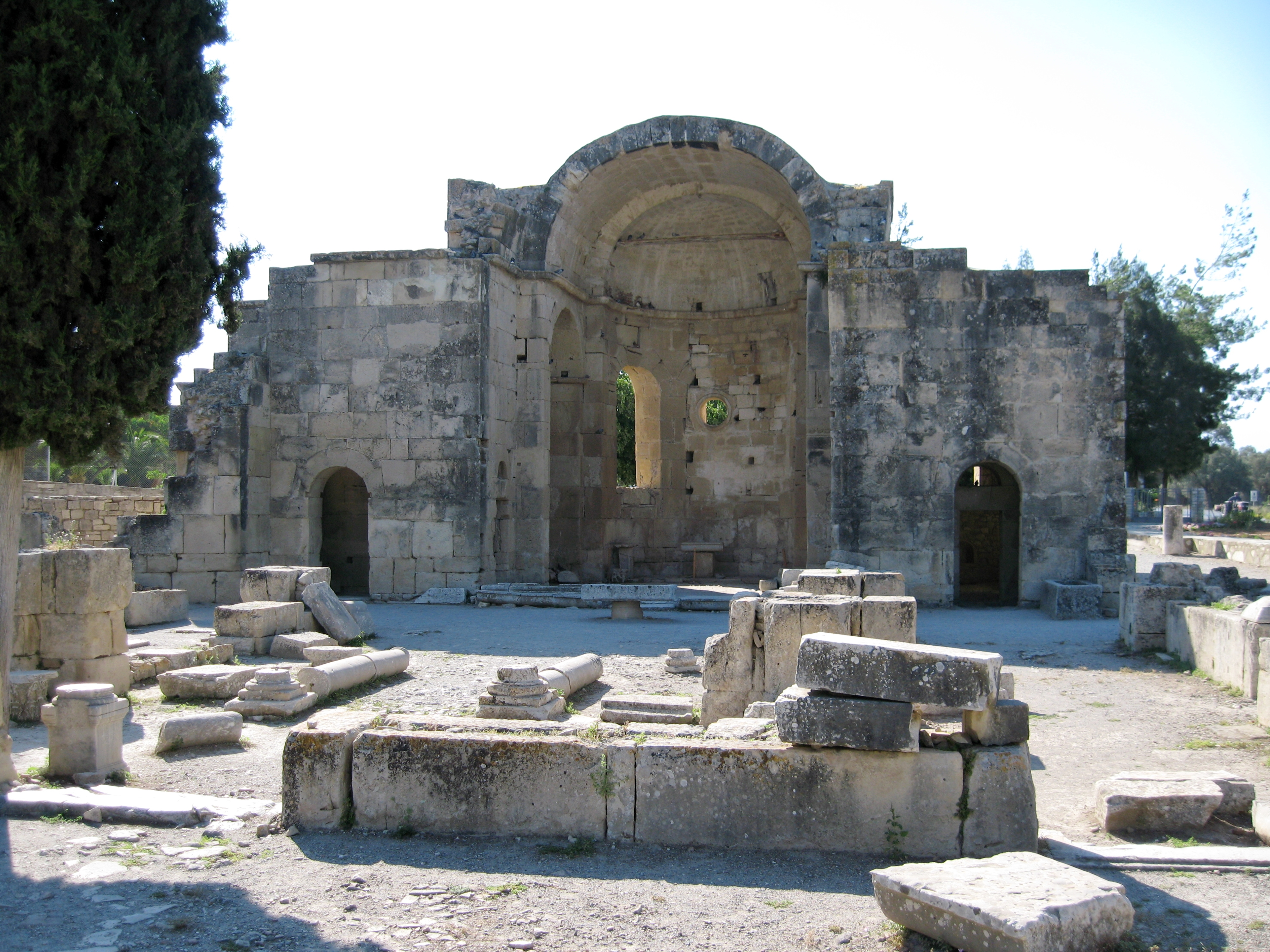 Gortyn, Crete, Greece